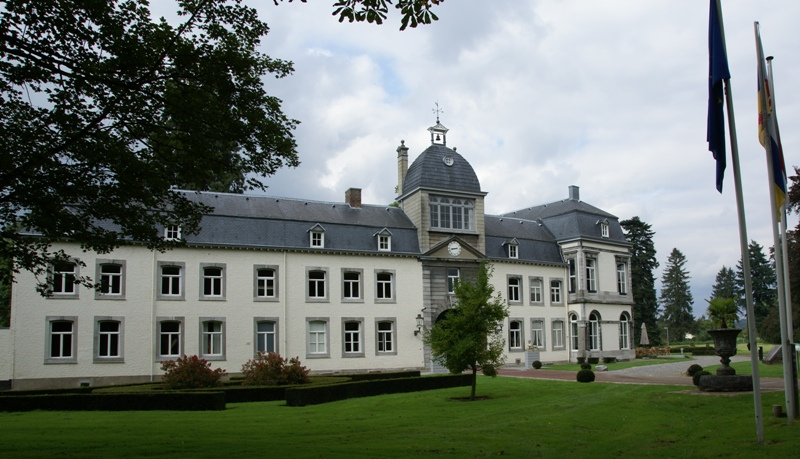 National monument no. 506108 - main building of Vaeshartelt, Weert 9, Maastricht, The Netherlands